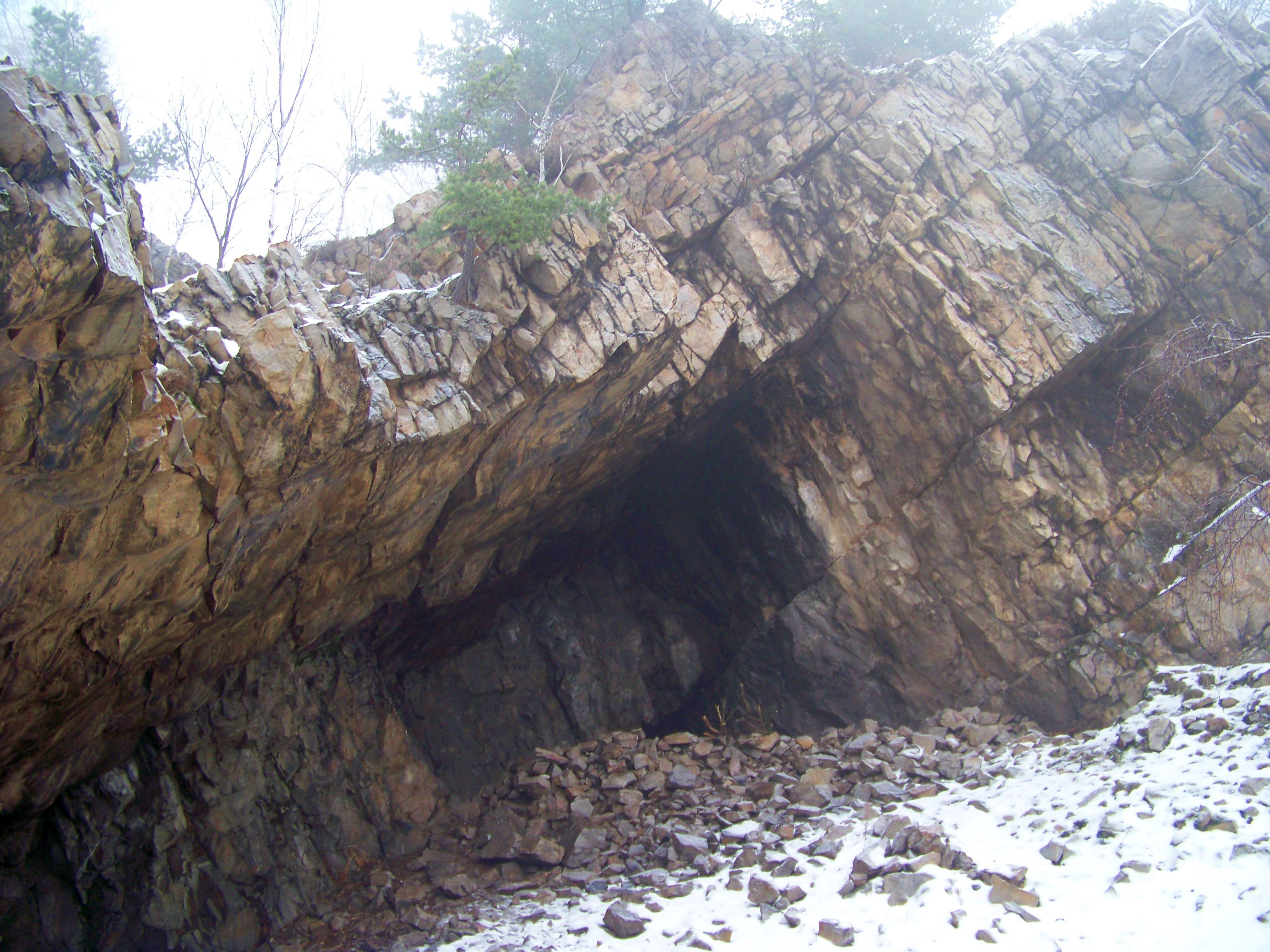 Řevnice, Prague-West District, Central Bohemian Region, the Czech Republic. Babka Hill. A former quarry. - Google Maps - Google Earth